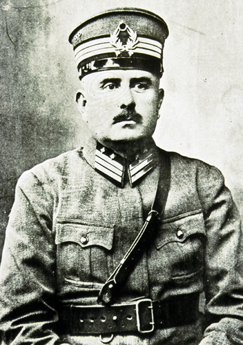 Kiazim Karabekir Pasha wearing Serpush cap (formerly named as Djemaliye).